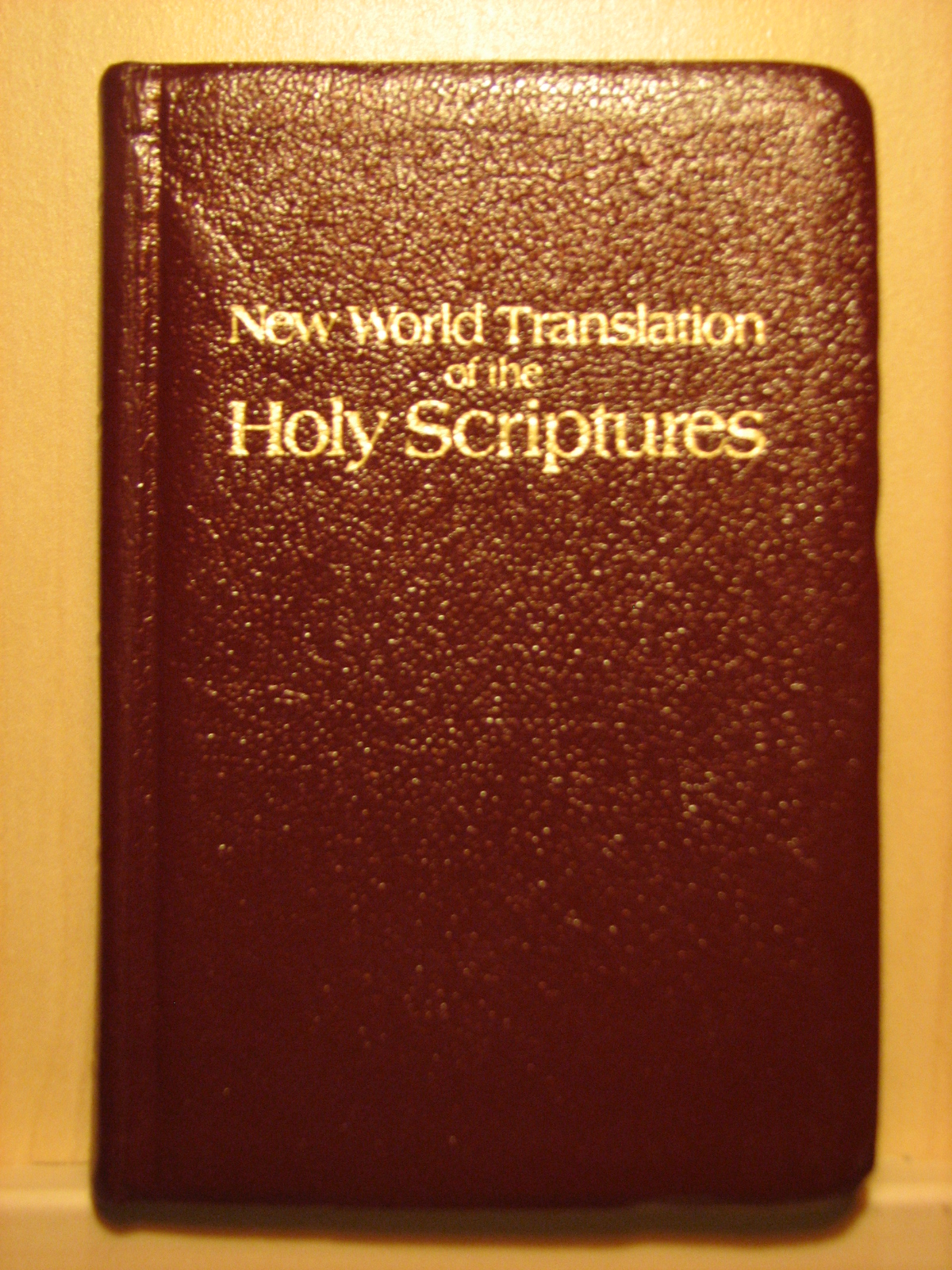 Pocket edition of the New World Translation of the Holy Scriptures. Without references and footnotes.